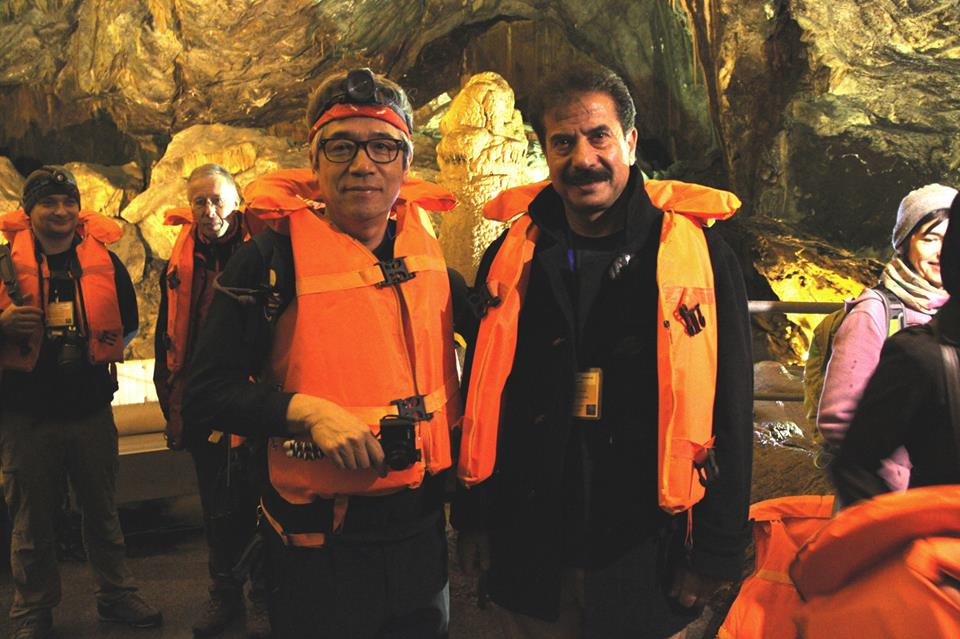 Hayat Durrani and Prof Kyung Sik Woo President UIS.jpg